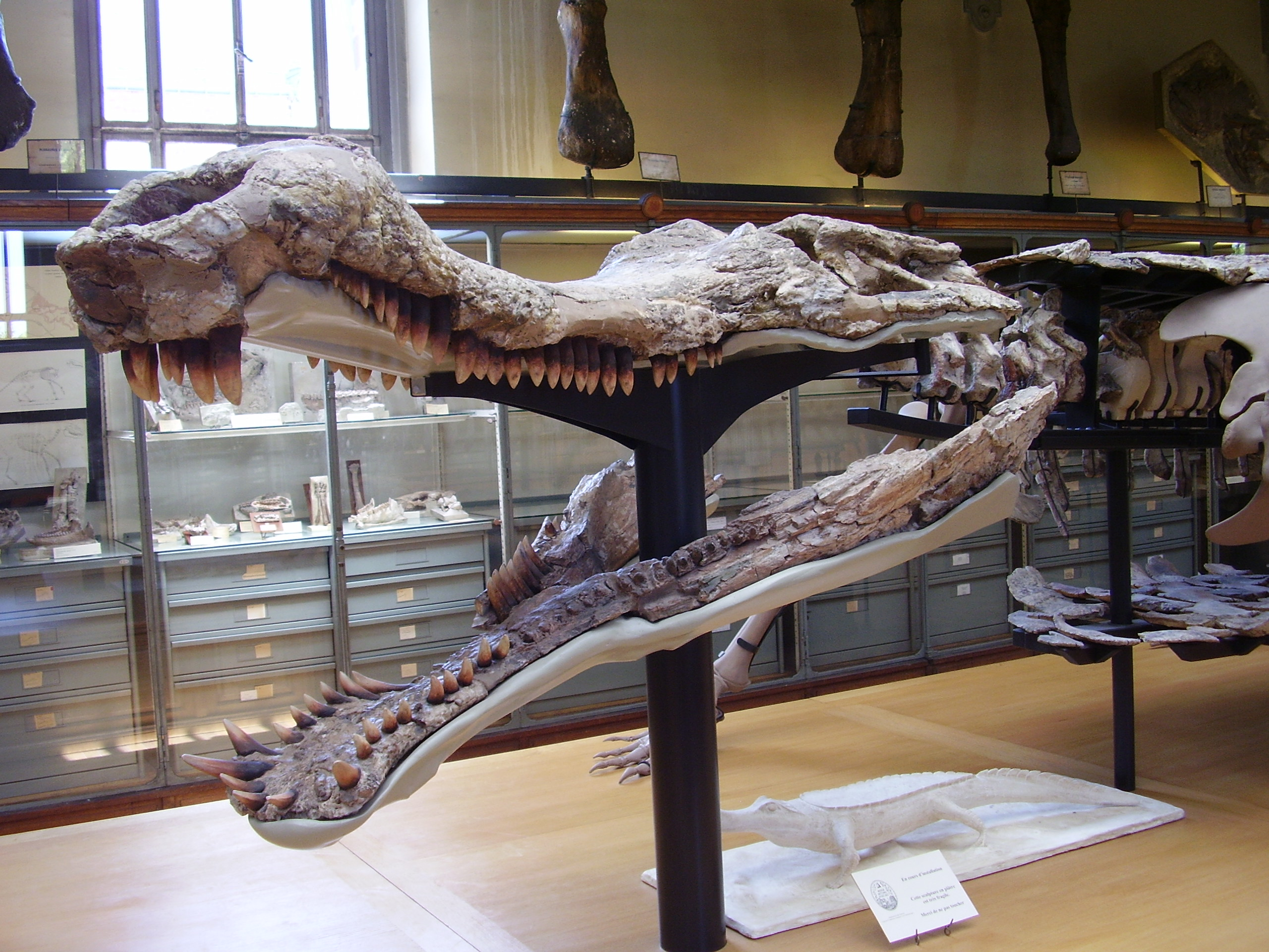 Skull of Sarcosuchus imperator, giant crocodyliform from North Africa. Museum of Natural History in Paris, 2011.